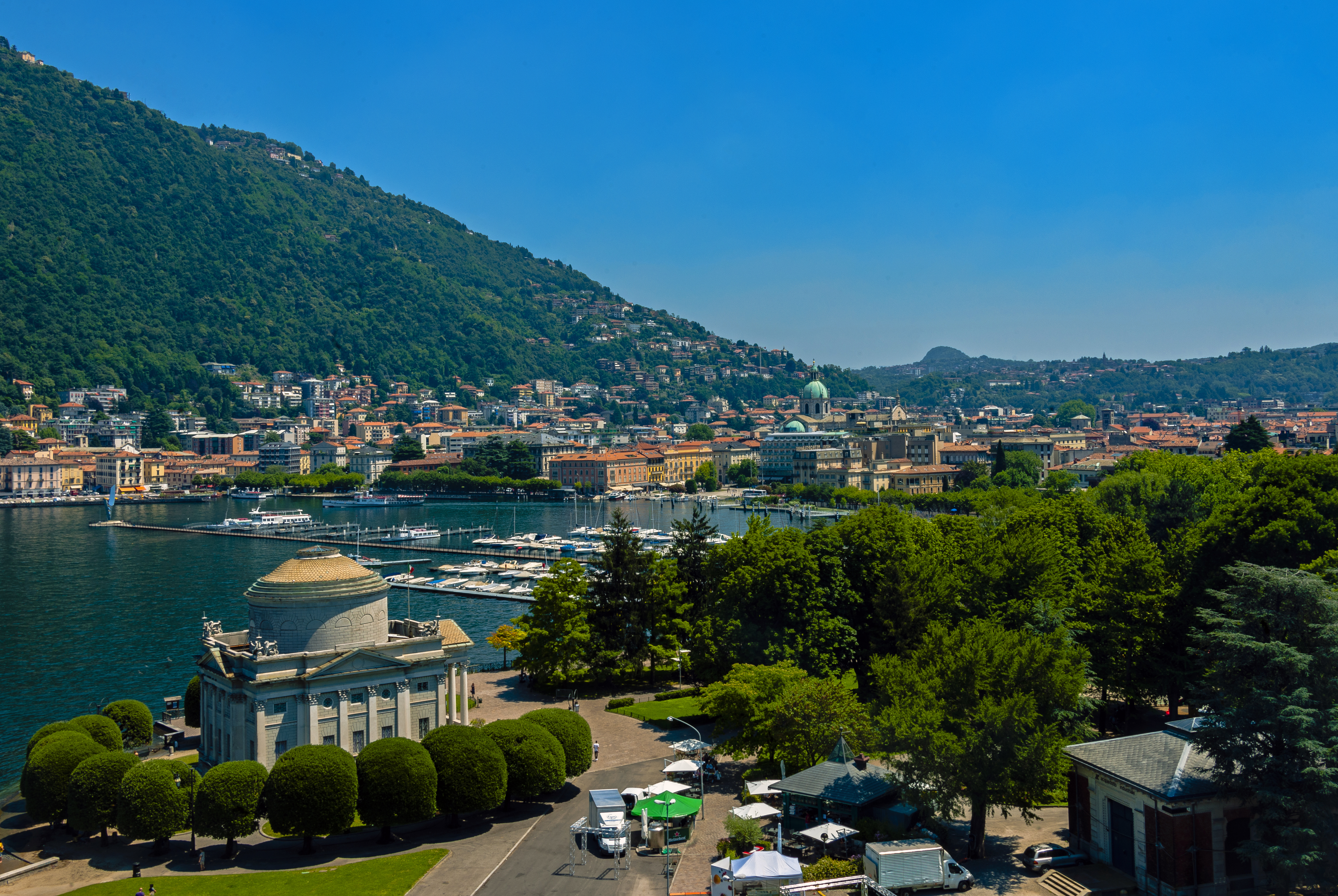 View of Como from the roof of the Monument to the Fallen